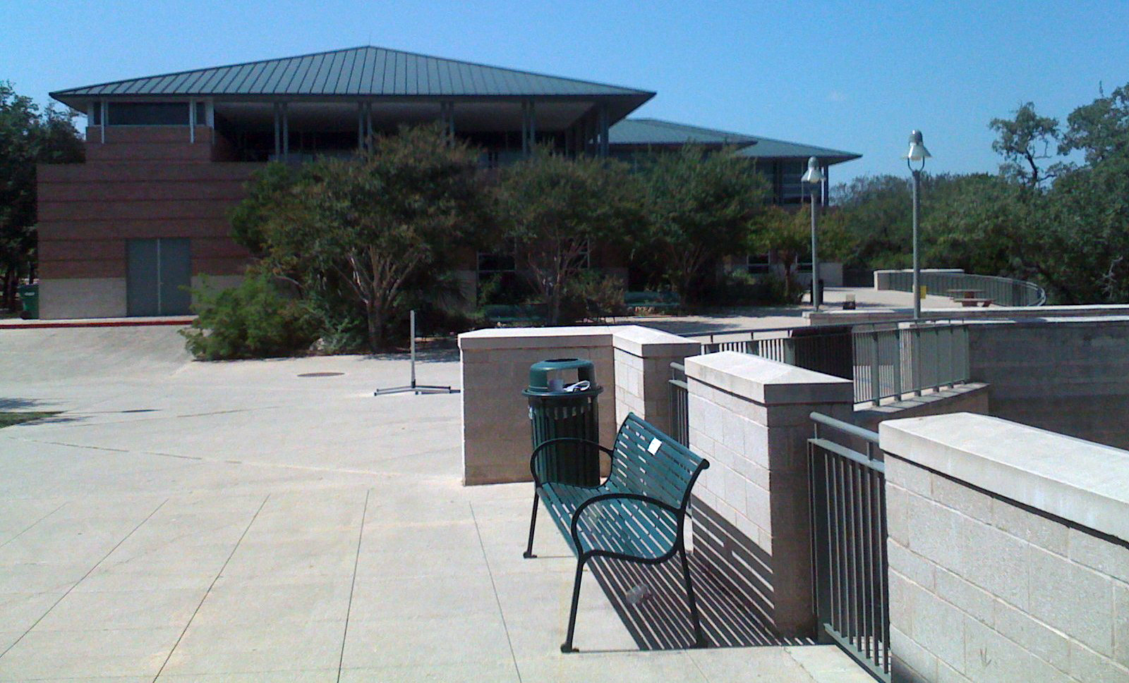 Huisache Hall, Northwest Vista College, Texas